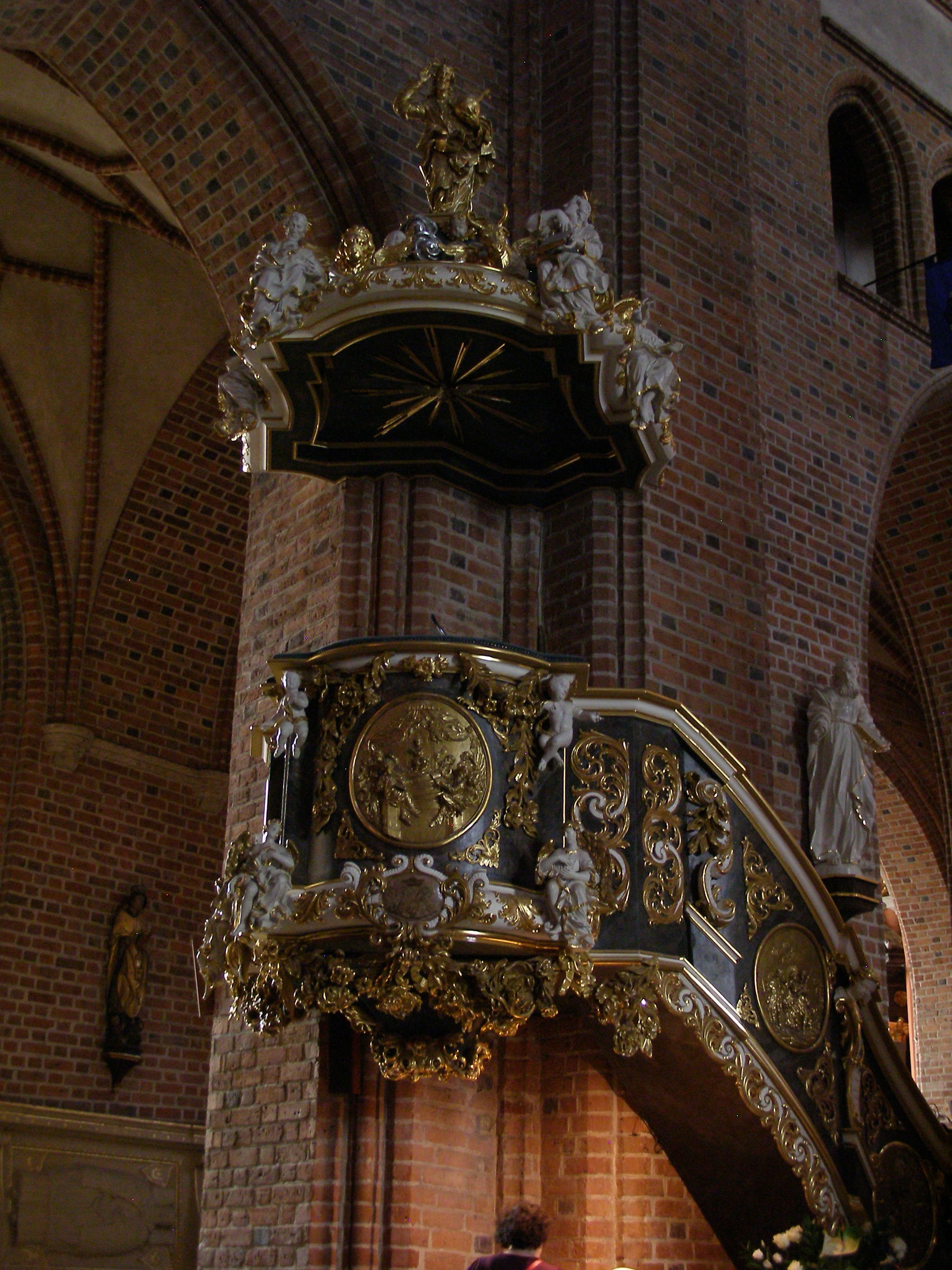 Poznań - a pulpit in the cathedral